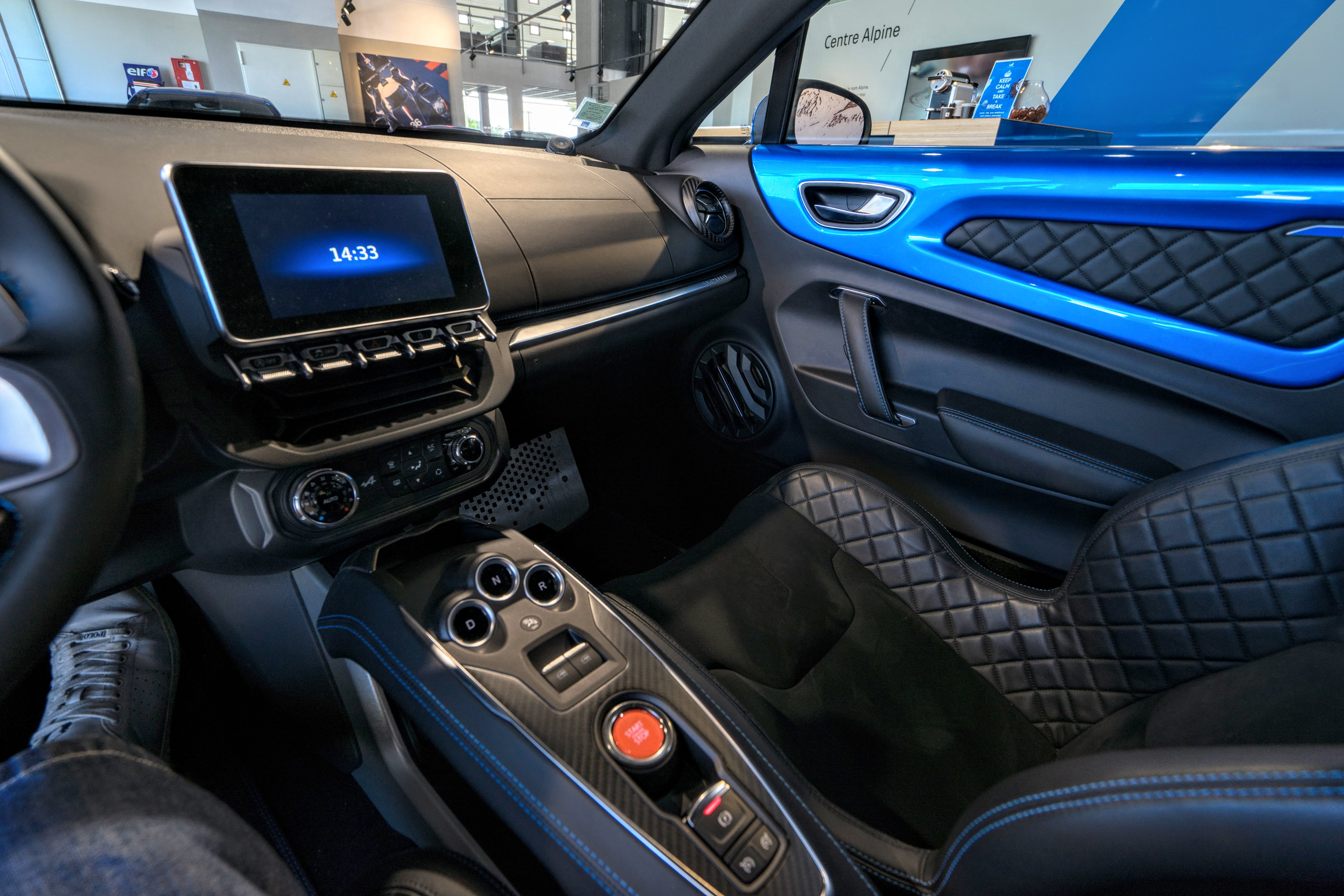 Console and seats of a 2018 Alpine A110.